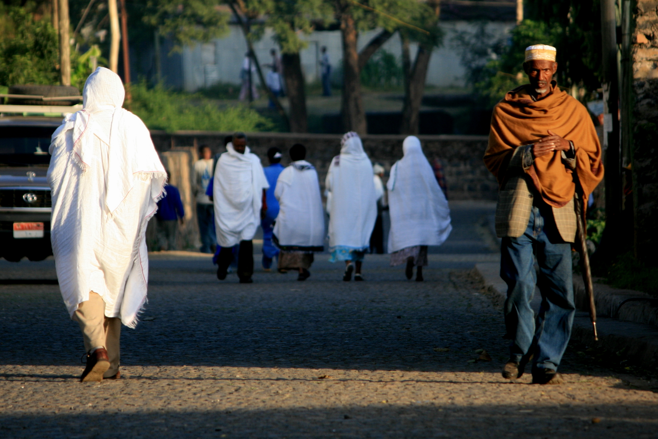 People walking in a street in Gondar in the Amhara Region of Ethiopia.